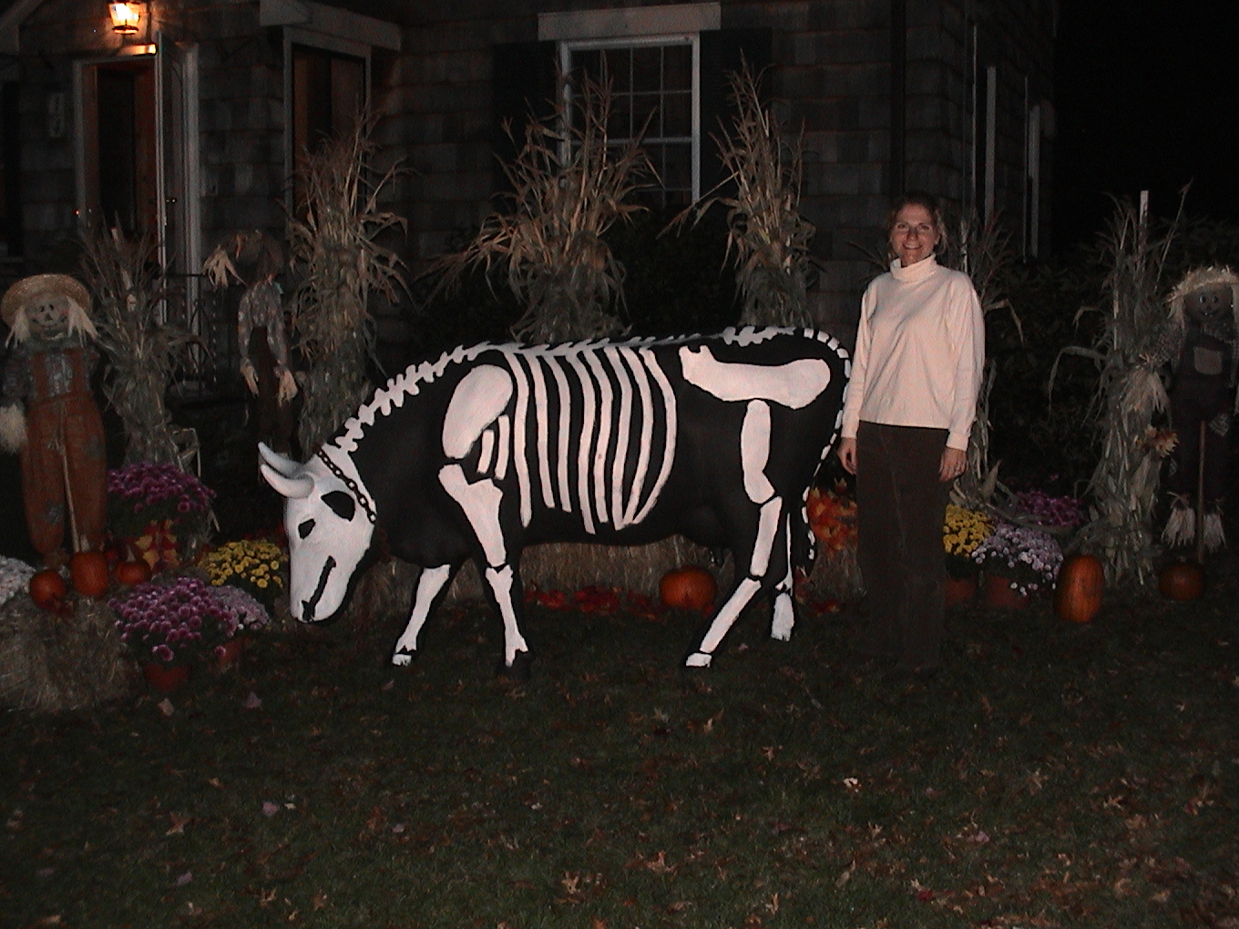 Gladys the Swiss Dairy Cow as a Skeleton, Source: Jim Lebinski